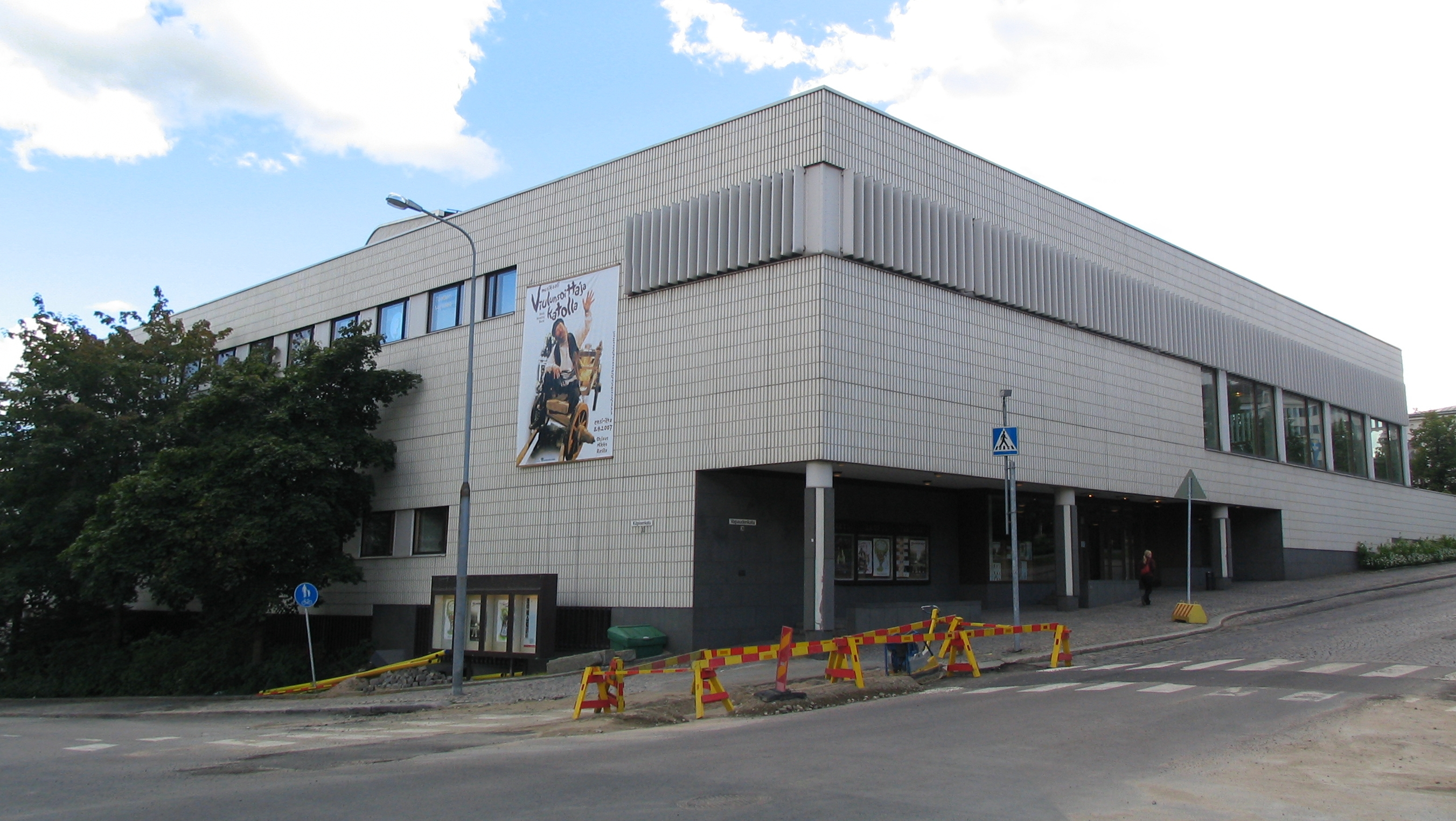 Jyväskylä city theatre. Address: Vapaudenkatu 36, 40100 Jyväskylä. Architect of the building was Alvar Aalto.